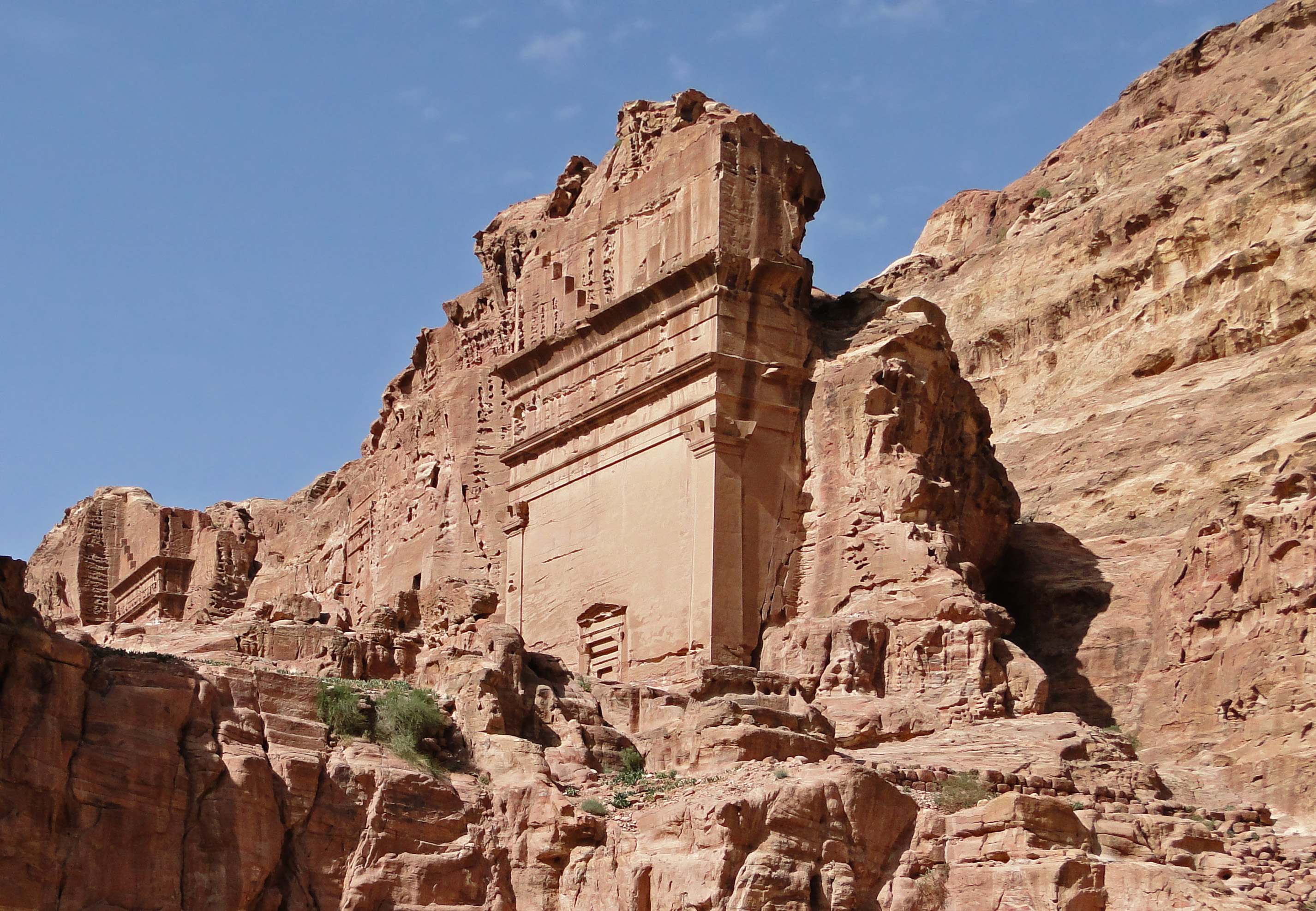 Uneishu Tomb, Petra, Jordan